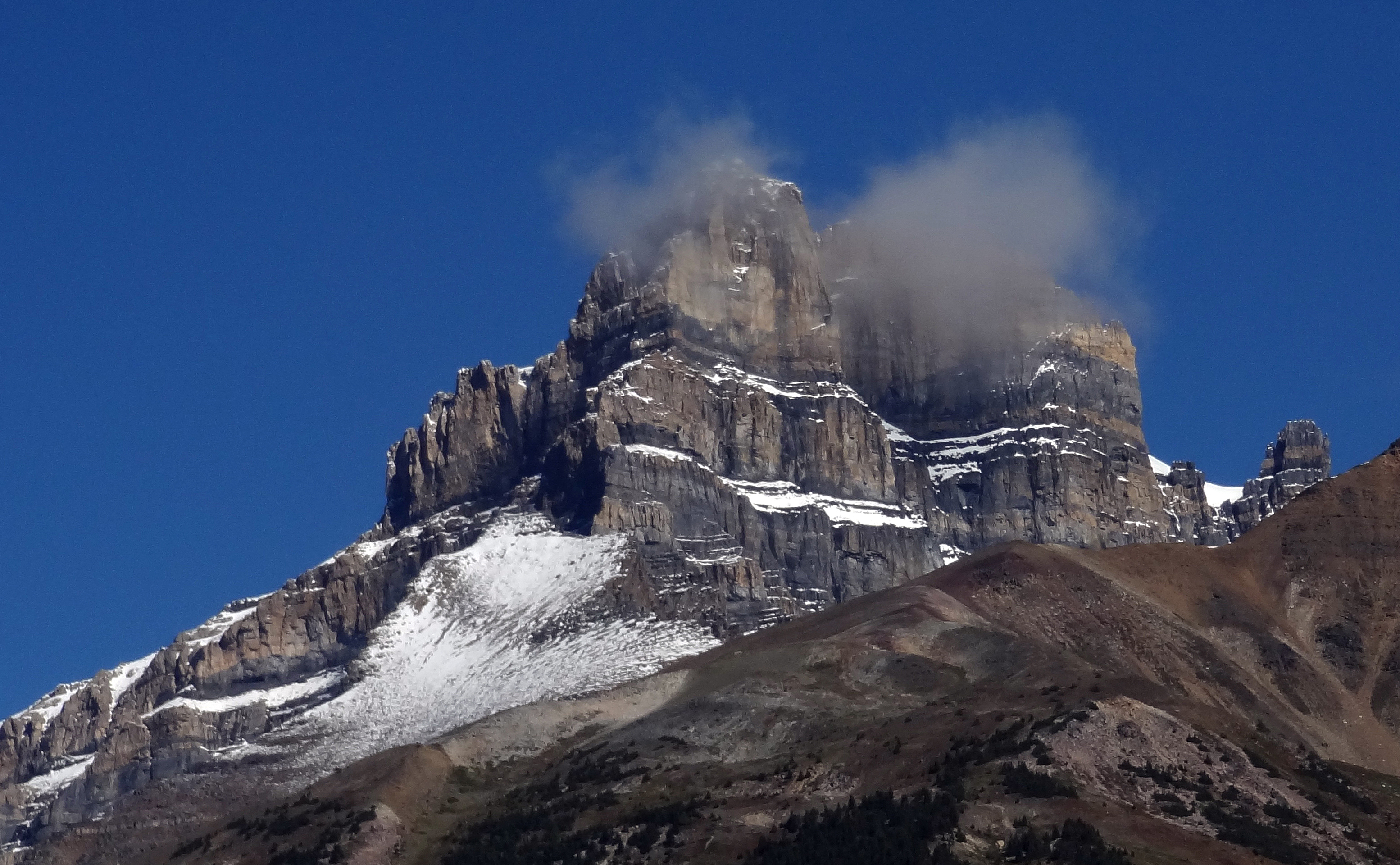 Mount Hector on Icefields Parkway Alberta Canada Sept/2014